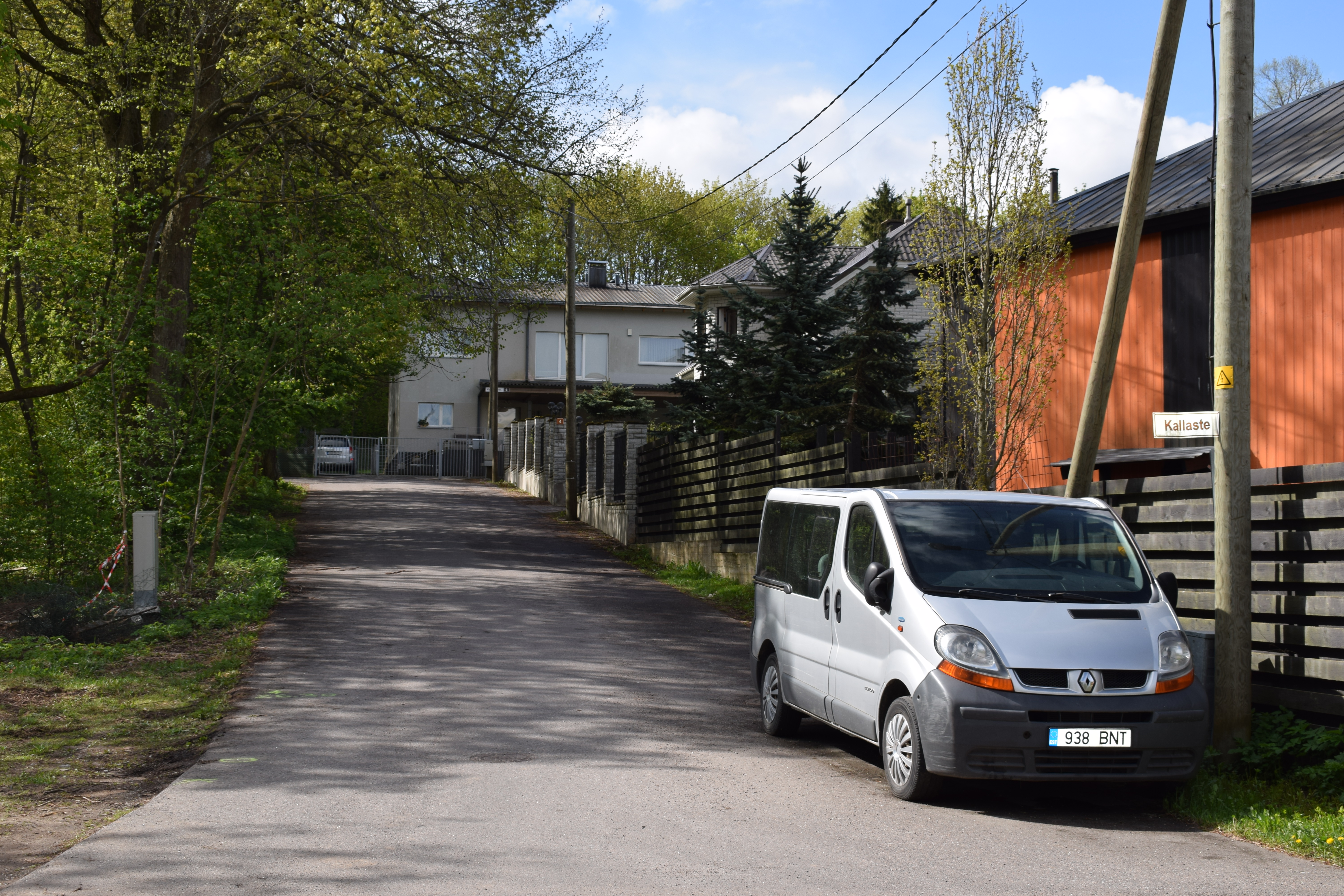 Kallaste street